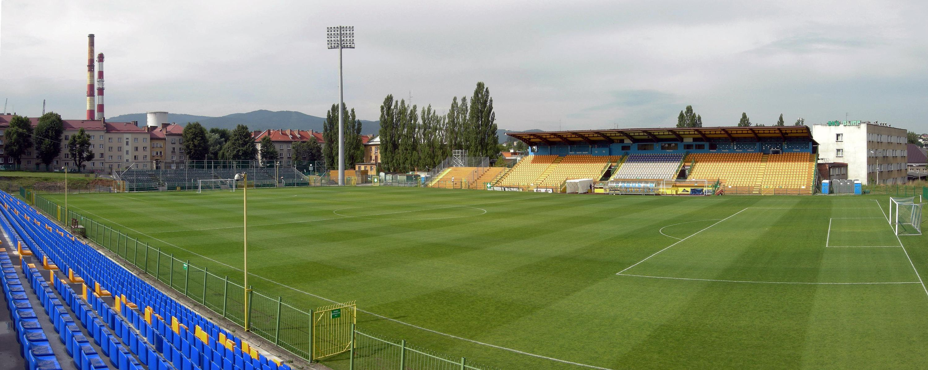 Stadion Miejski in Bielsko-Biała.